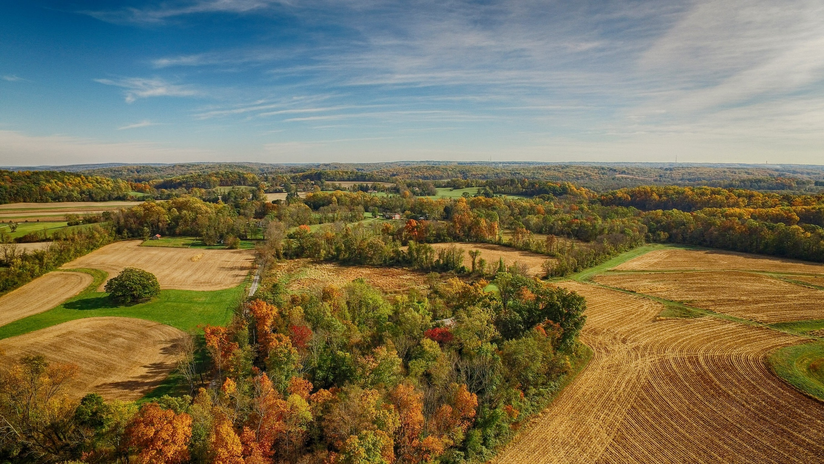 Bryn Coed Farms, taken by Mark Williams